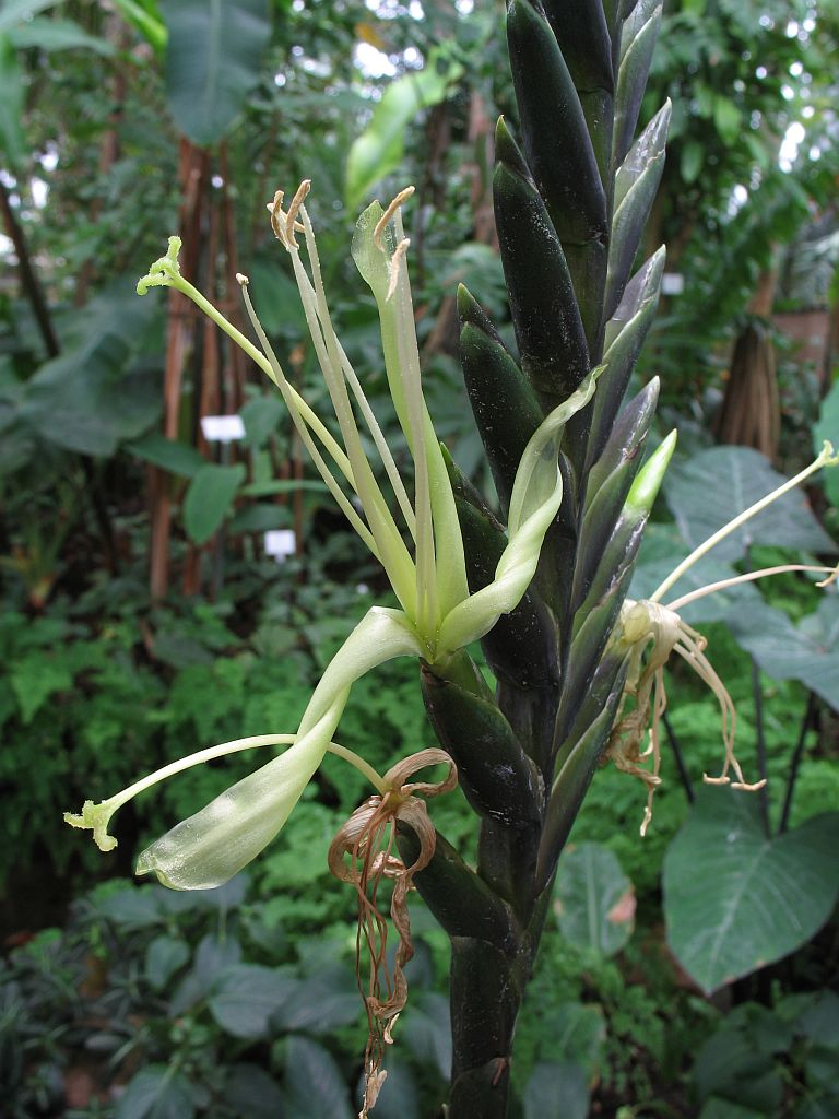 Tillandsia viridiflora in cultivation at the Botanical Garden of Heidelberg, Germany.